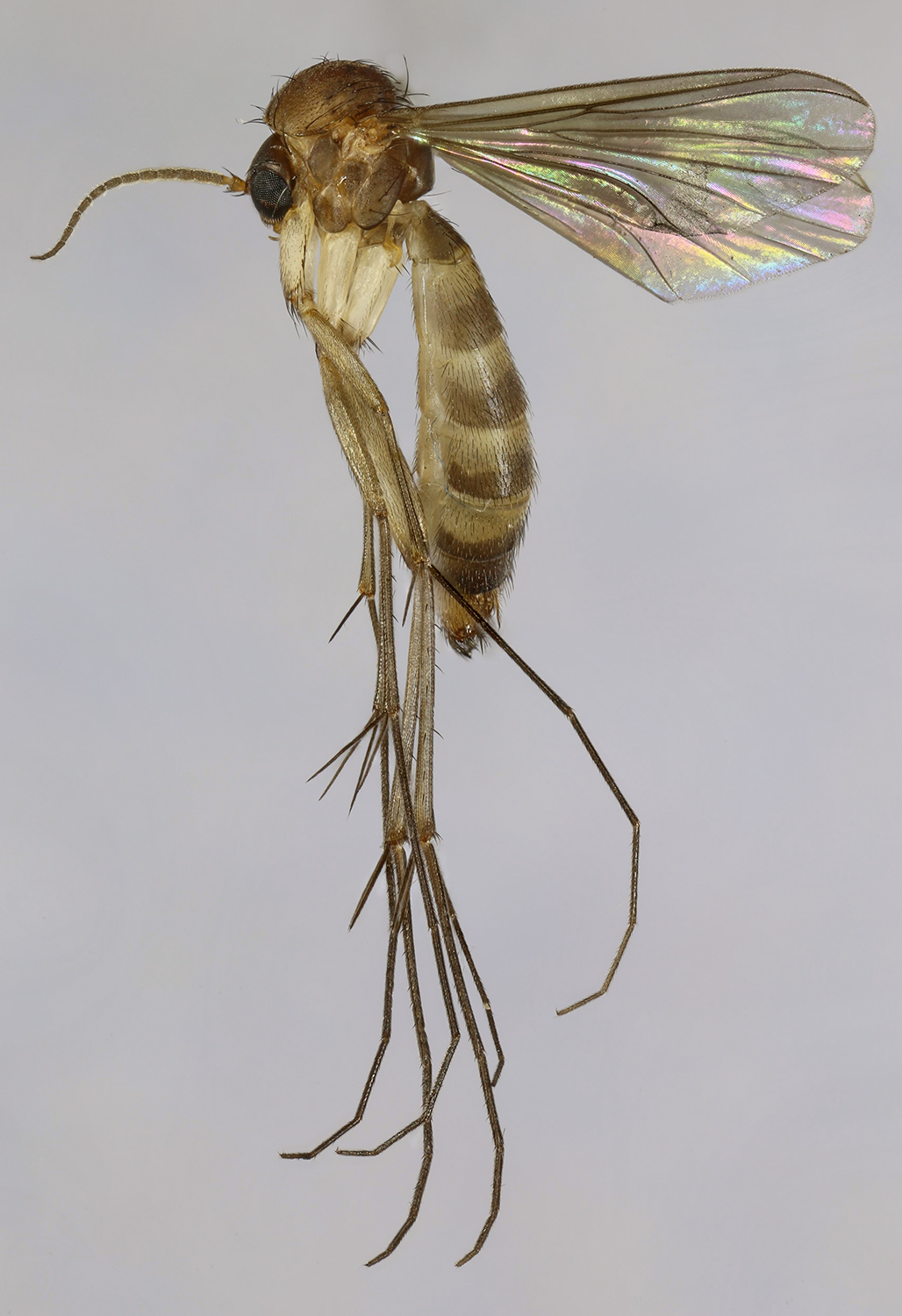 Rymosia fasciata, Bala lakeshore, North Wales, Oct 2014